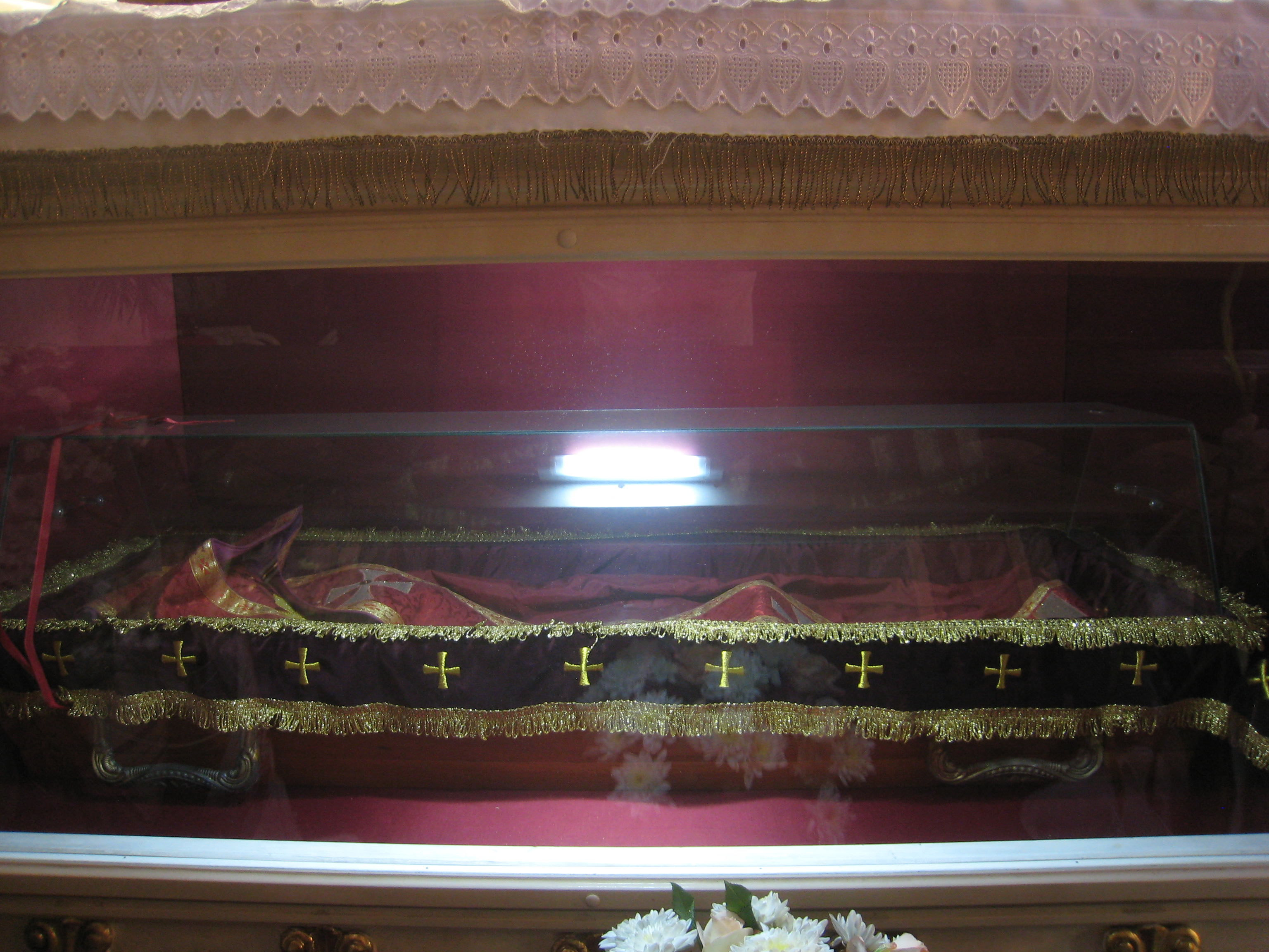 Relics of the Blessed Theodore Romzxha, venerated in the Cathedral of Uzhorod.